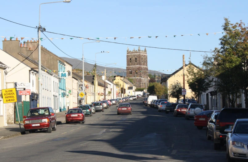 Main Street Ballylanders, County Limerick Ireland. August 2011